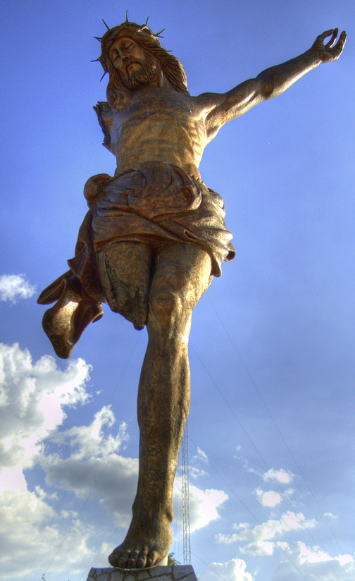 'El Cristo Roto'('The Broken Christ') in Aguascalientes, Mexico